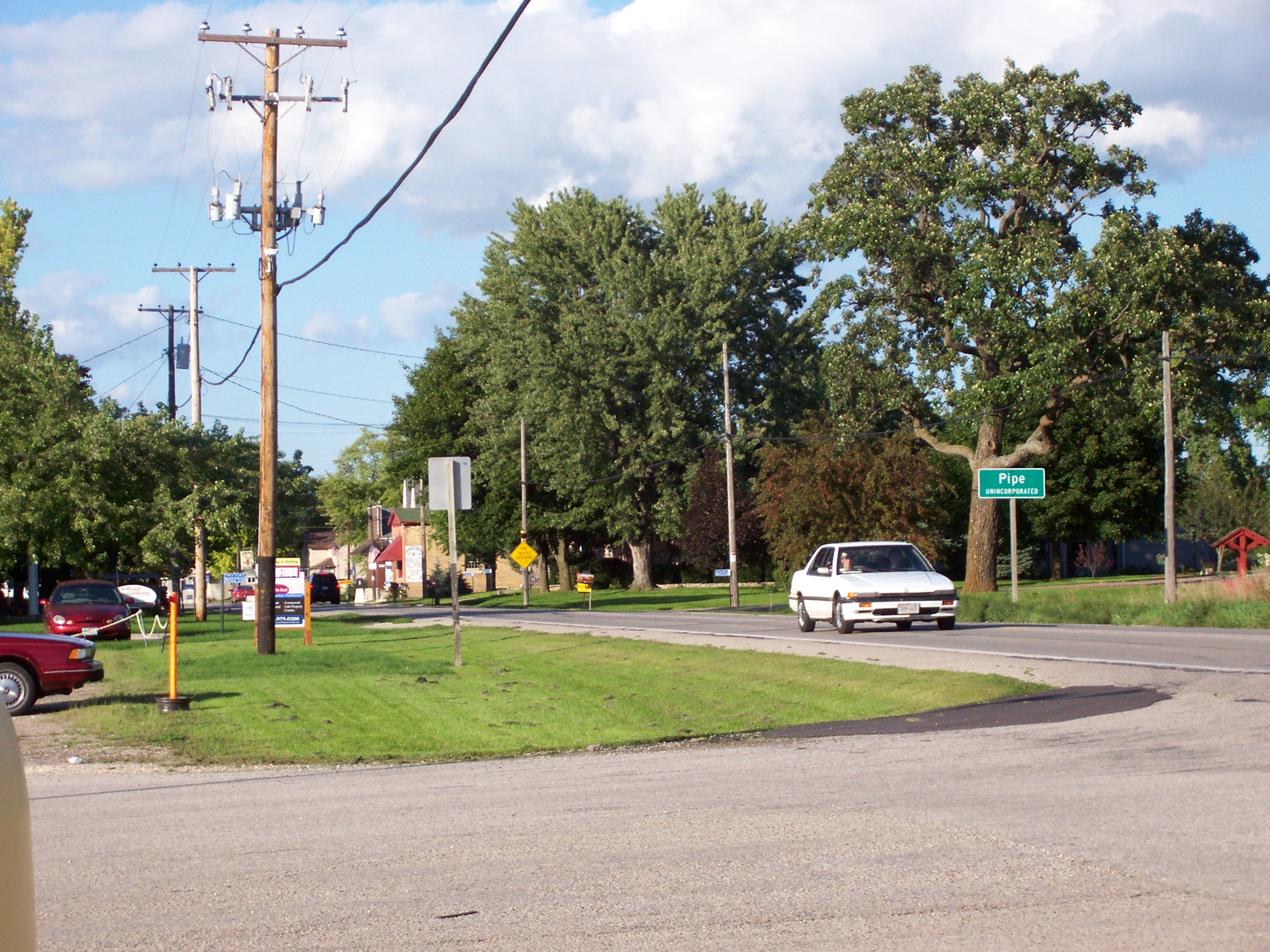 Looking north at the DOT sign and downtown Pipe, Wisconsin, USA and U.S. Route 151.